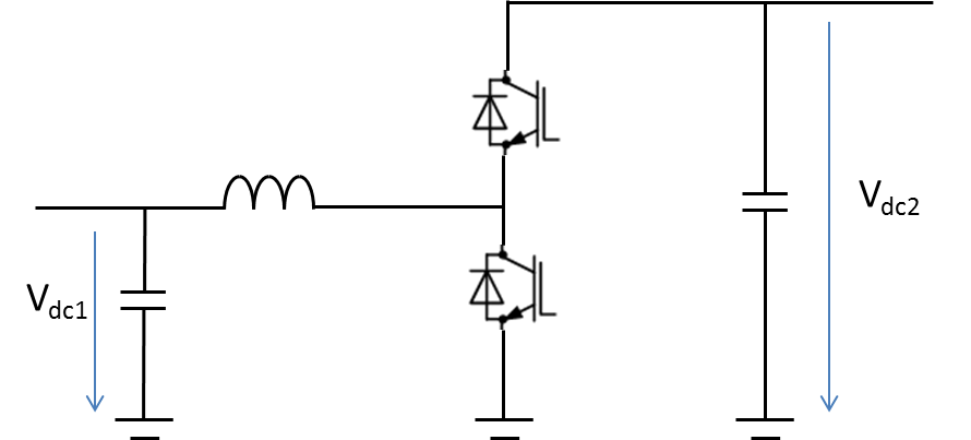 Converter DC/DC with only 2 levels.